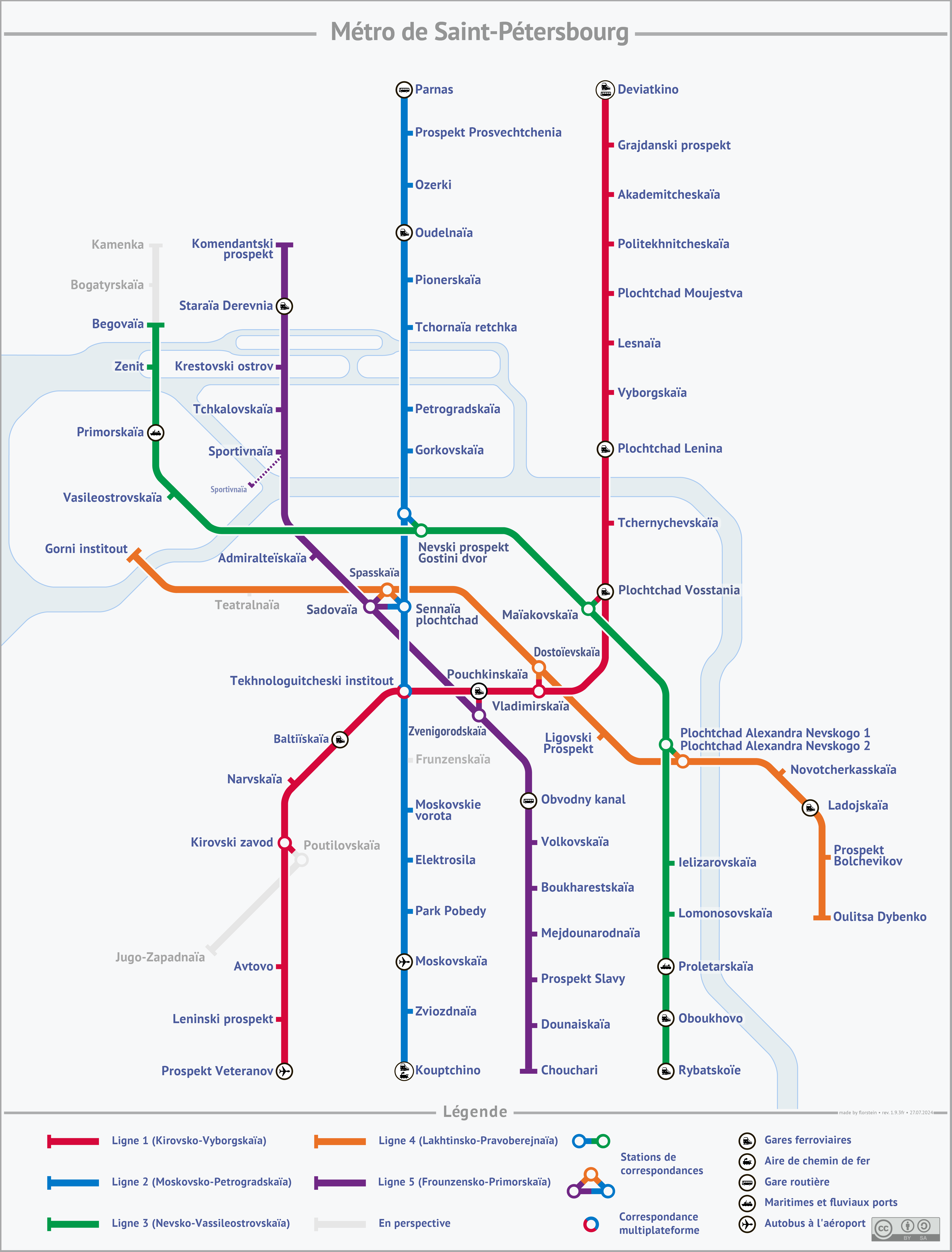 Saint Petersburg metro map. French version.